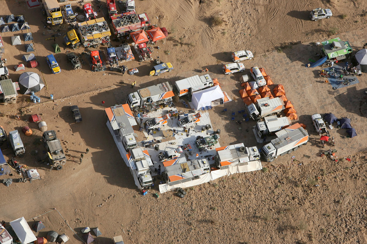 X-raid Dakar